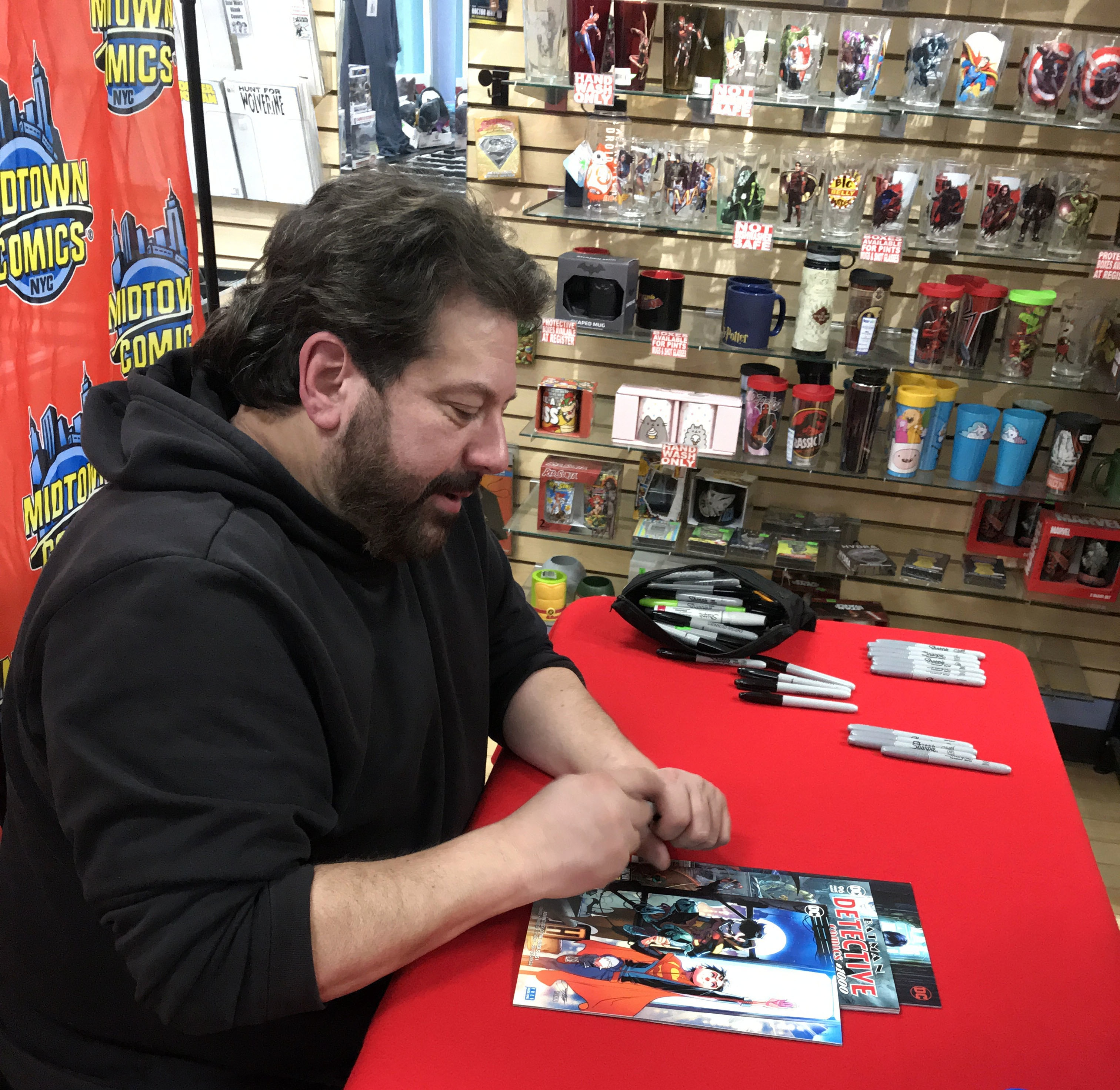 Comics writer and editor Peter Tomasi at a Wednesday, March 27, 2019 signing for Detective Comics #1000 at Midtown Comics Downtown in Manhattan. This photo was created by Luigi Novi. It is not in the public domain, and use of this file outside of the licensing terms is a copyright violation.